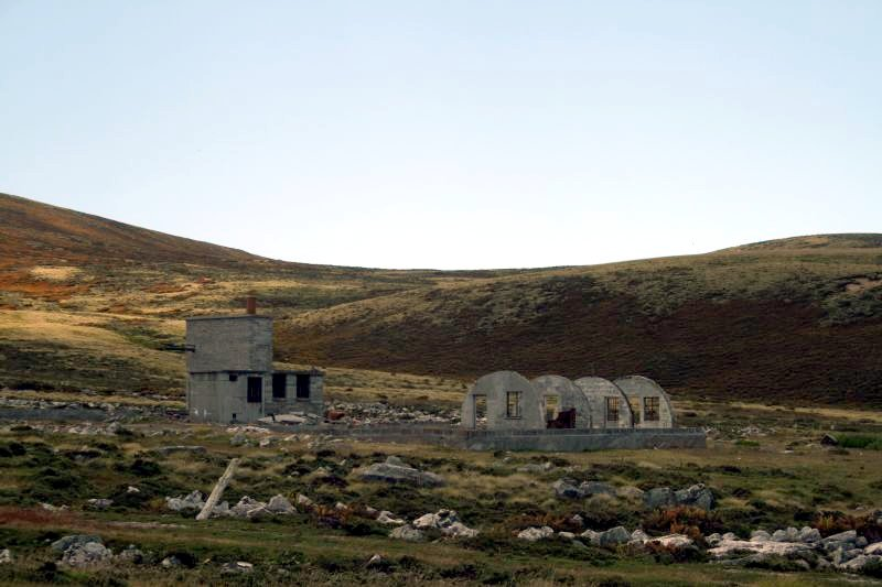 Ajax Bay, Falkland Islands. Originally built as an economic project, these buildings became the British field hospital during the San Carlos Landings.